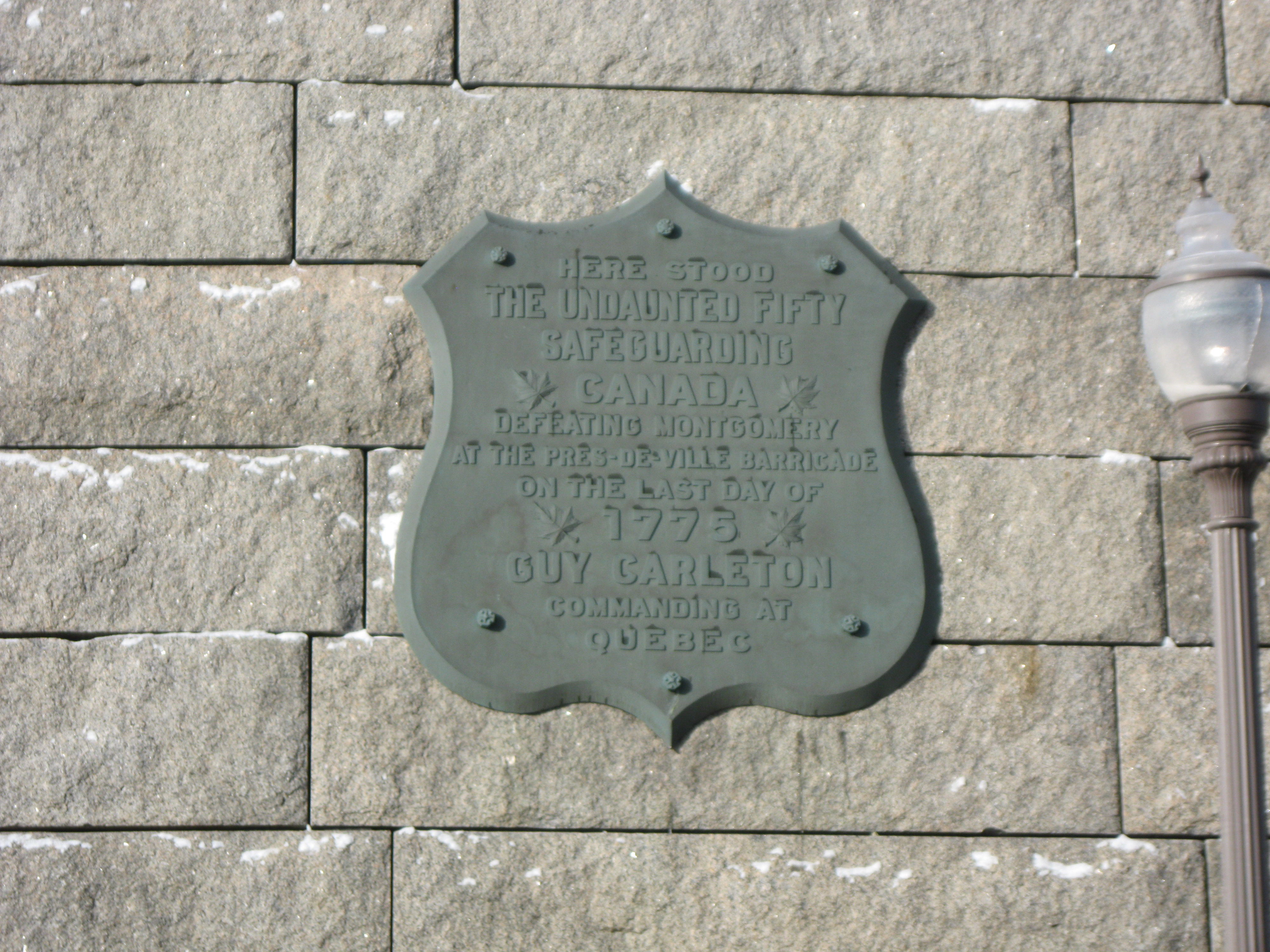 Plaque where is written : « HERE STOOD THE UNDAUNTED FIFTY SAFEGUARDING CANADA DEFEATING MONTGOMERY AT THE PRES-DE-VILLE BARRICADE ON THE LAST DAY OF 1775 GUY CARLETON COMMANDING AT QUEBEC », on a wall, Champlain Boulevard, Lower Town, Old Quebec City